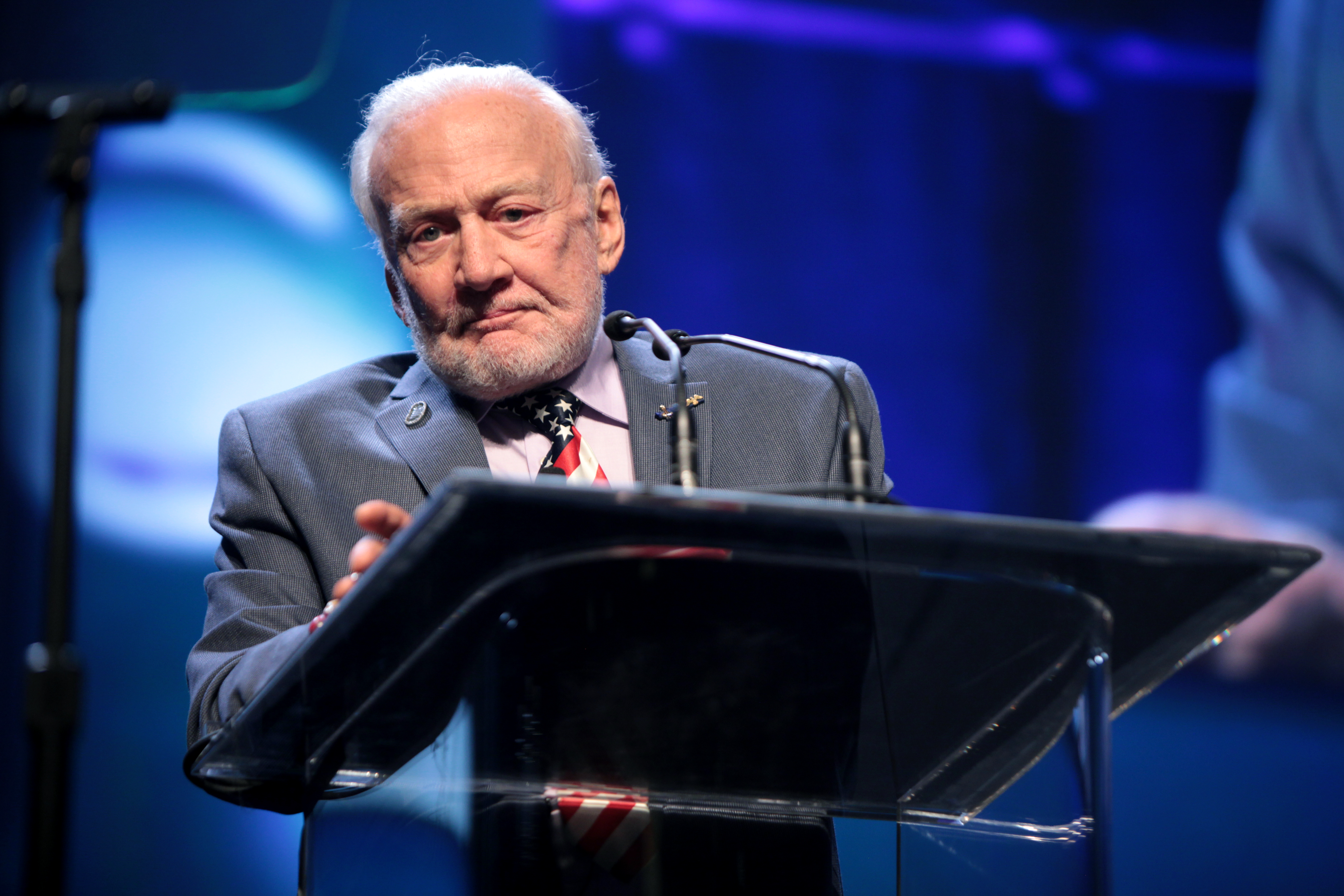 Buzz Aldrin speaking with attendees at the 2016 Cloud Summit hosted by Ingram Micro at the JW Marriott Desert Ridge Resort & Spa in Phoenix, Arizona.